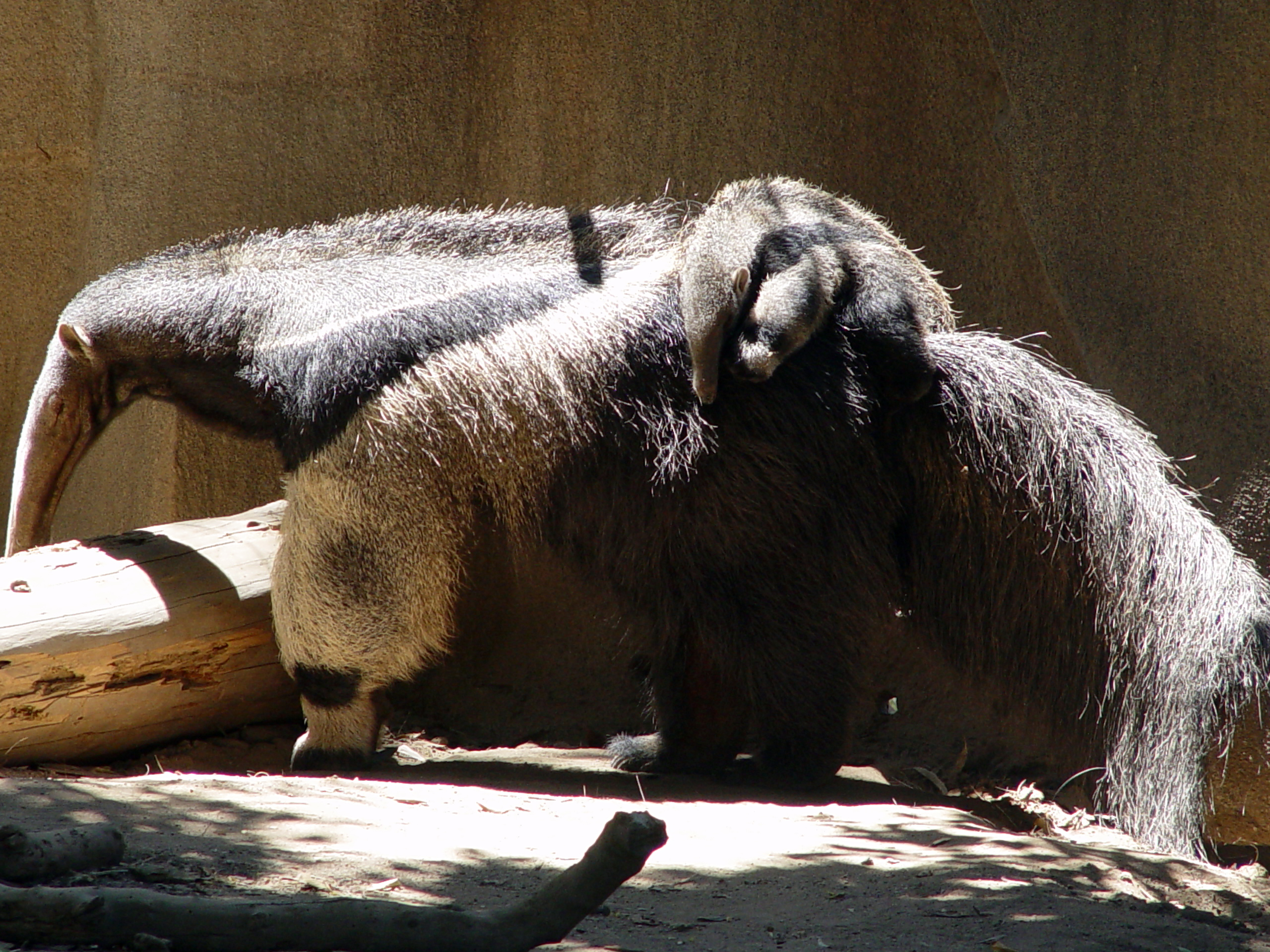 Giant Anteater (Myrmecophaga tridactyla) with offspring clinging to back at the San Diego Zoo.